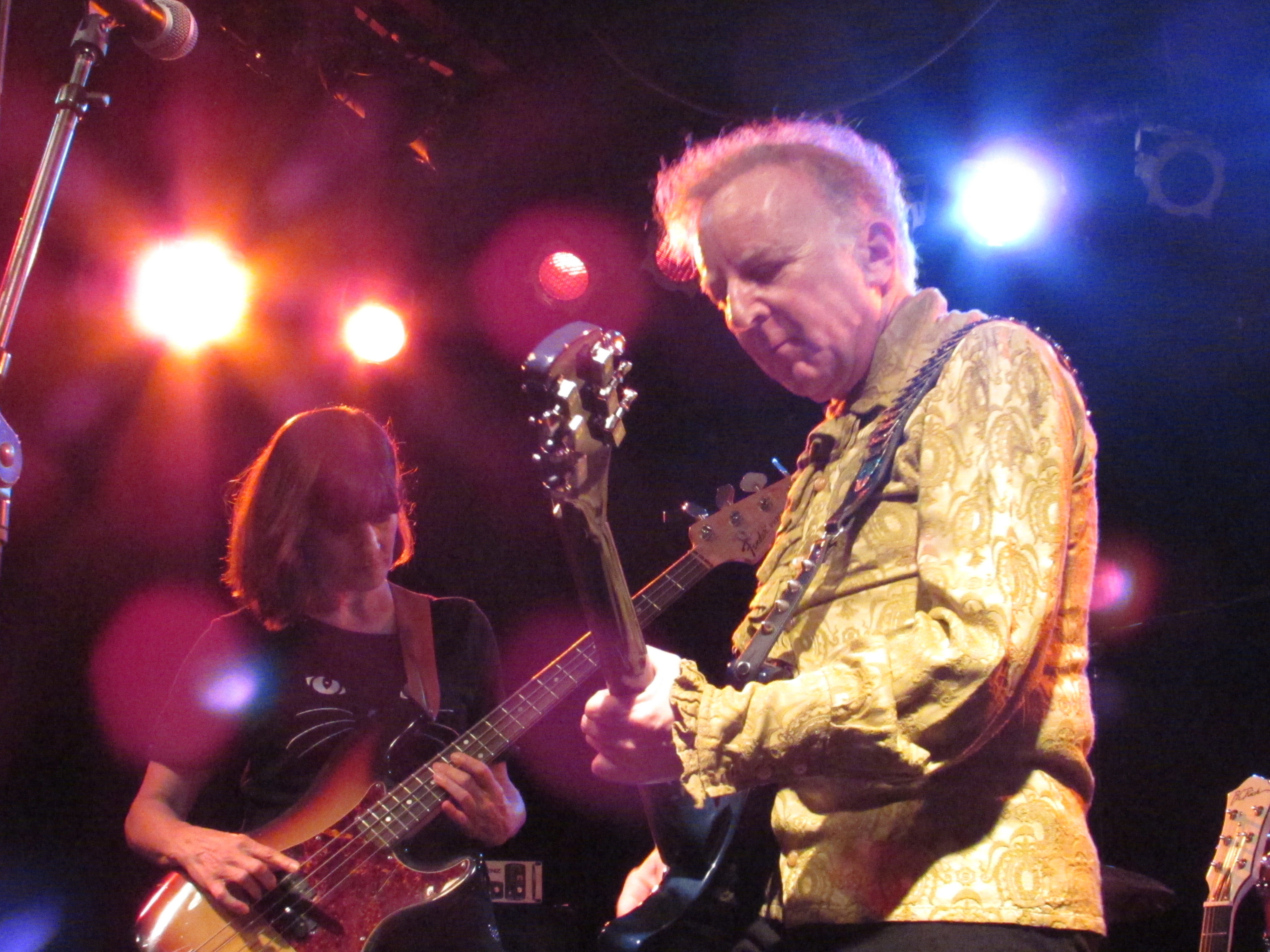 Suzi Ziegler and Mitch Easter of the band Let's Active, in reunion performance at Cat's Cradle, Chapel Hill, North Carolina, on August 9, 2014.